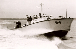 MGB 64 at sea